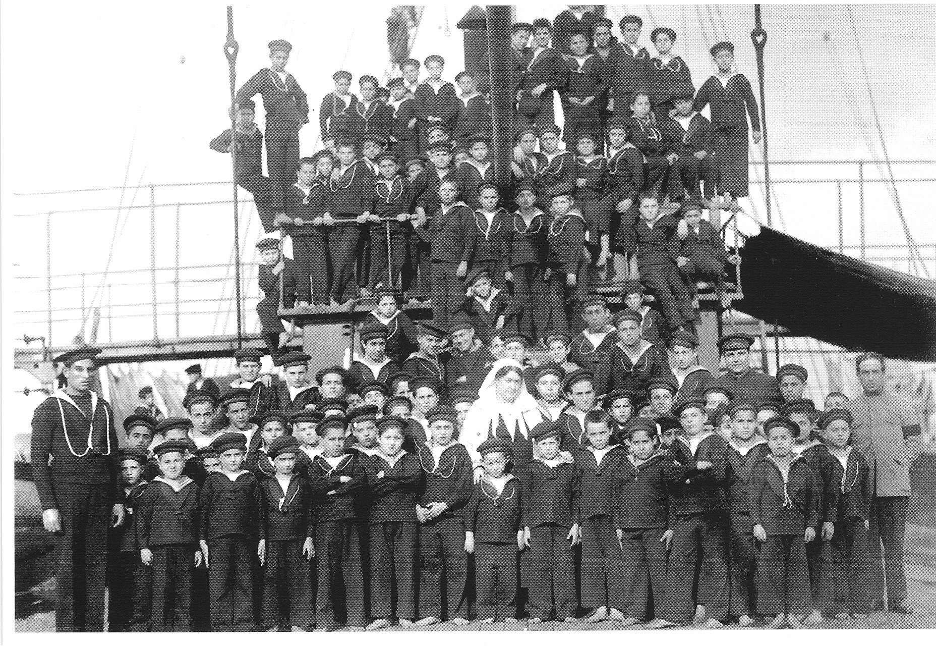 Boys of Kindergarten Ship Caracciolo in uniform with Giulia Civita Franceschi